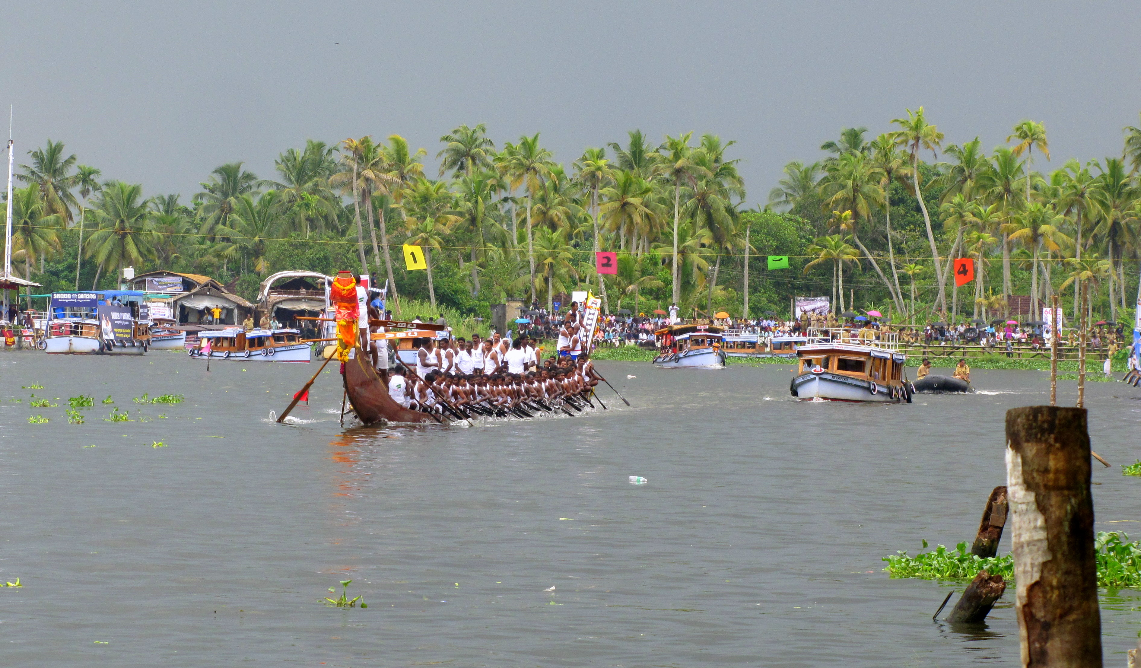 The Nehru Trophy Boat Race is a popular Vallam Kali held in the Punnamada Lake near Alappuzha, Kerala, India. Vallam Kali or Vallamkali literally means boat play/game, but can be translated to boat race in English. The most popular event of the race is the competition of Chundan Vallams (snake boats). Hence the race is also known as Snake Boat Race in English. Other types boats which participate in various events of the race are Churulan Vallam, Iruttukuthy Vallam, Odi Vallam, Veppu Vallam (Vaipu Vallam), Vadakkanody Vallam and Kochu Vallam. The race conducted on the second Saturday of August every year is a major tourist attraction.